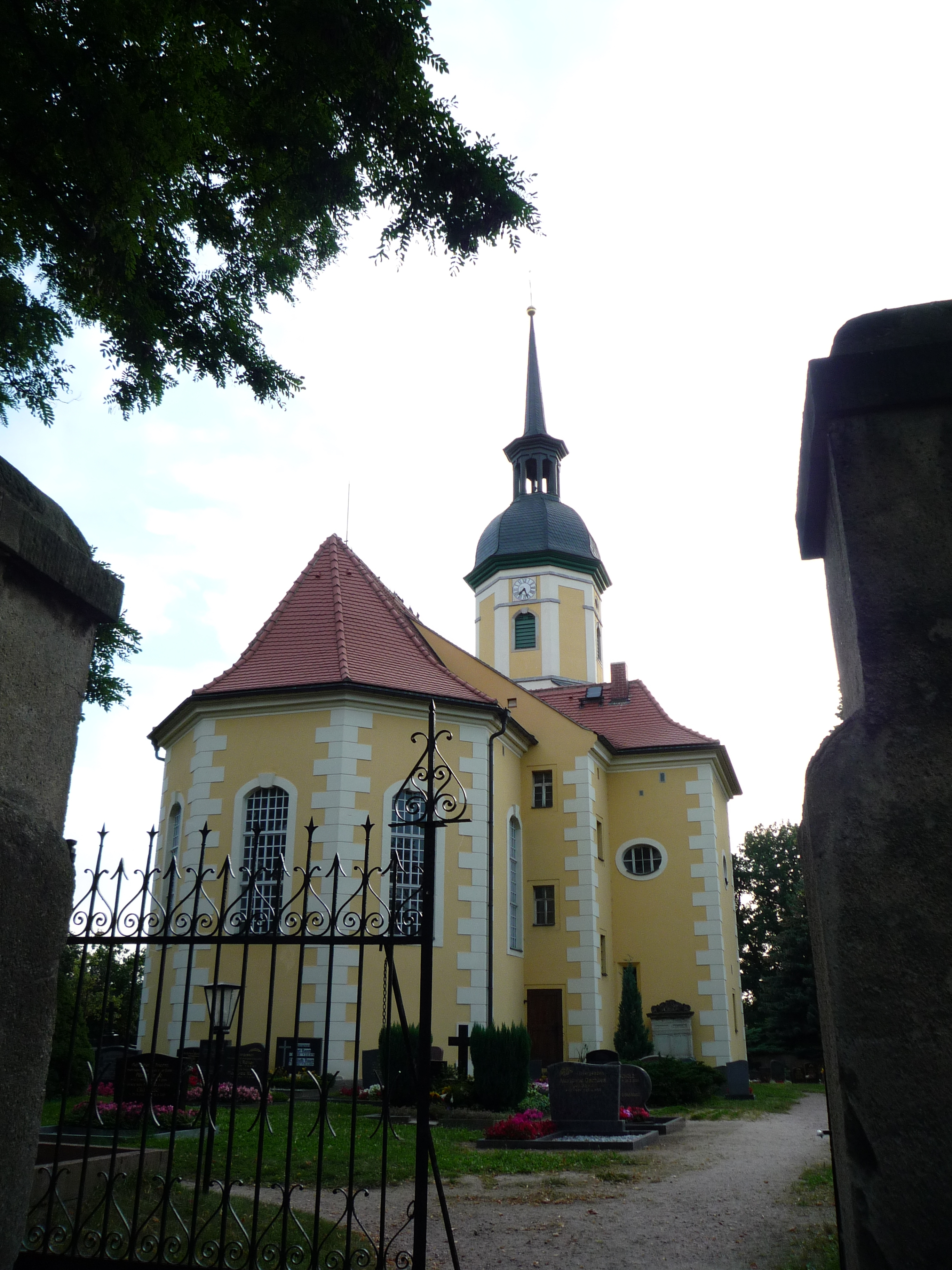 Church in Gröbern (Niederau)